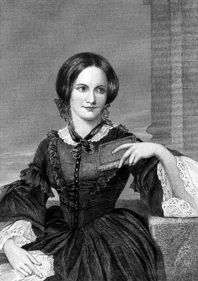 Portrait of Charlotte Brontë